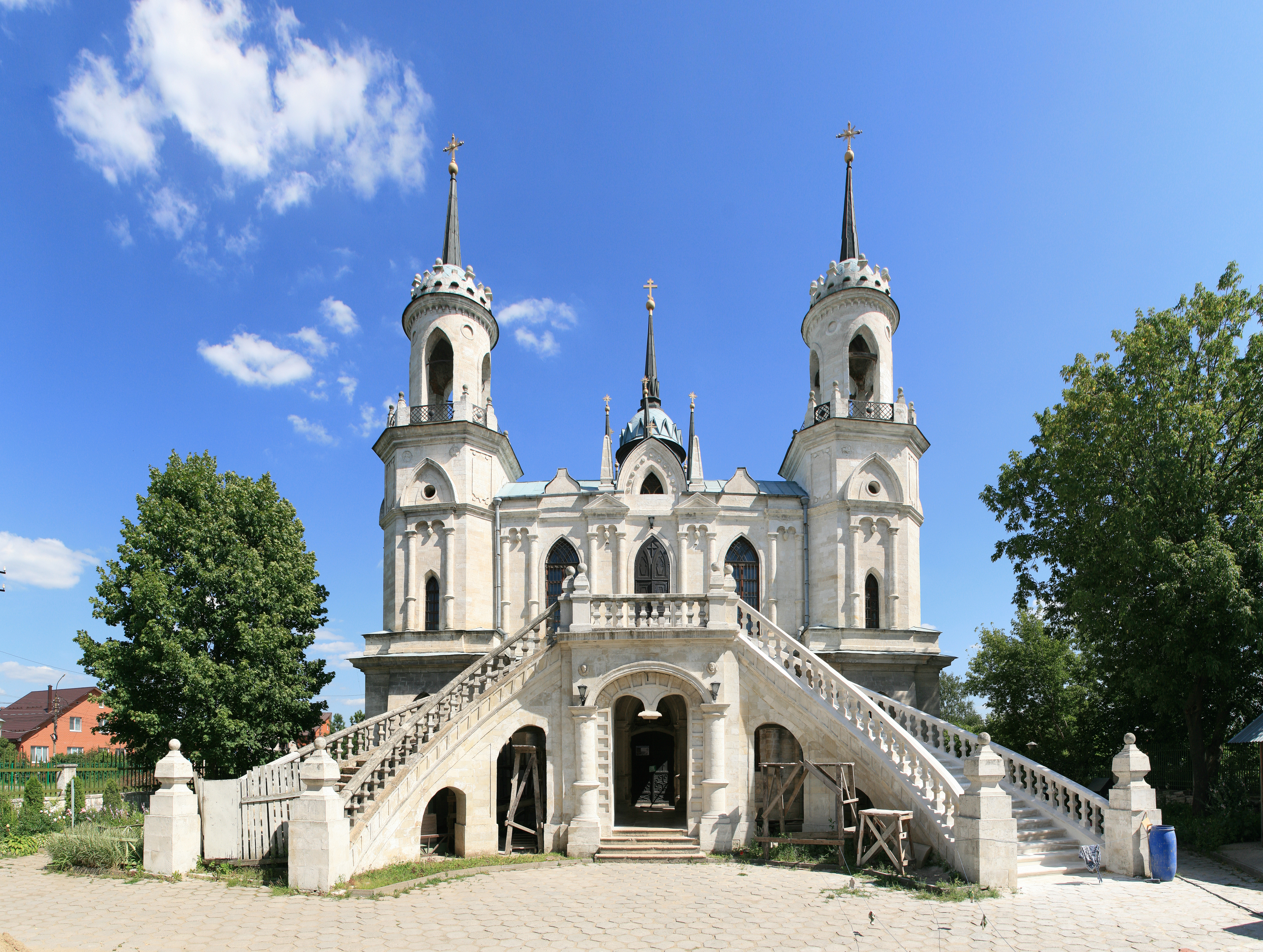 Church of the Theotokos of Vladimir in Bykovo, Moscow Oblast